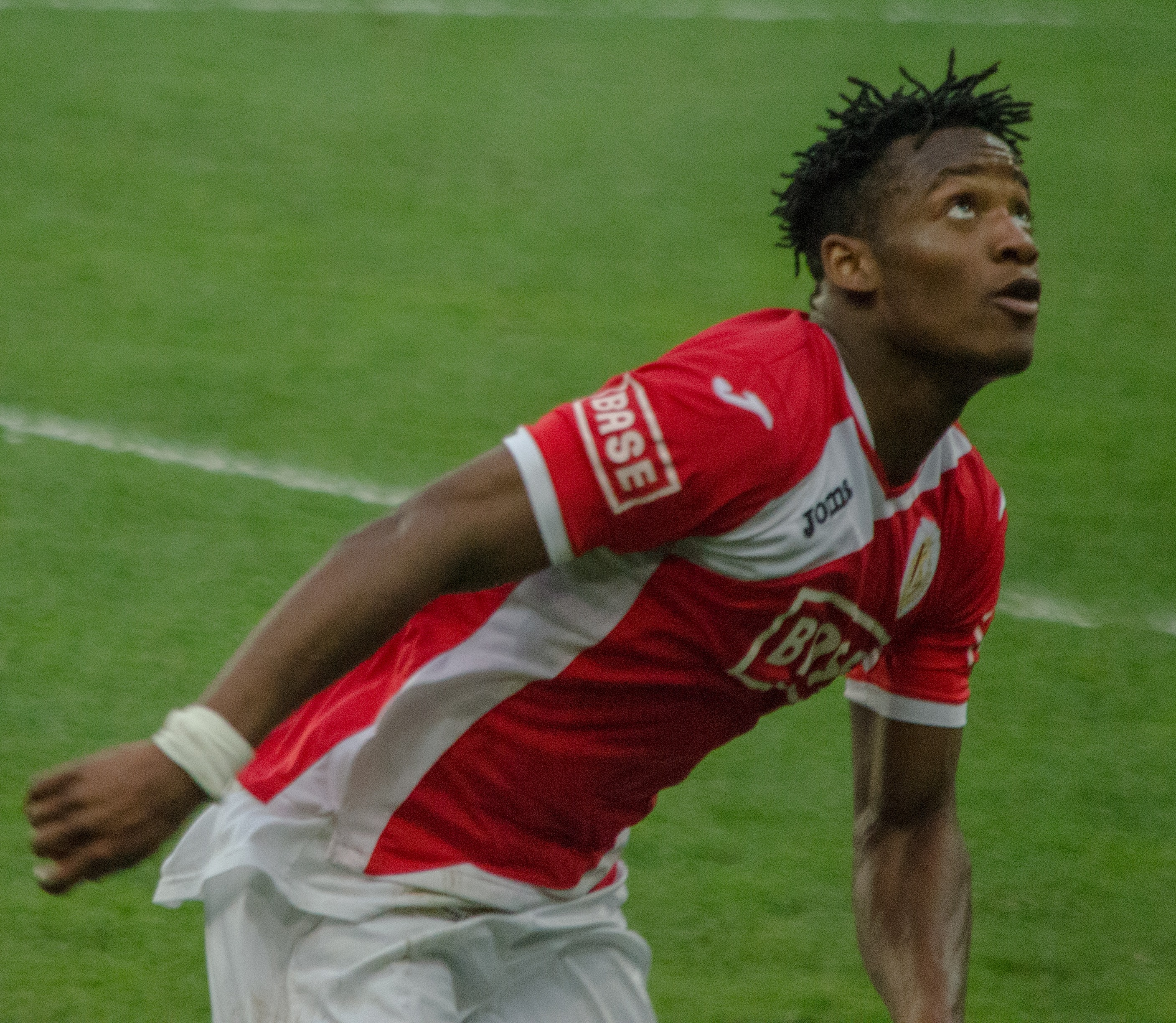 Michy Batshuayi playing for Standard Liege in 2014.